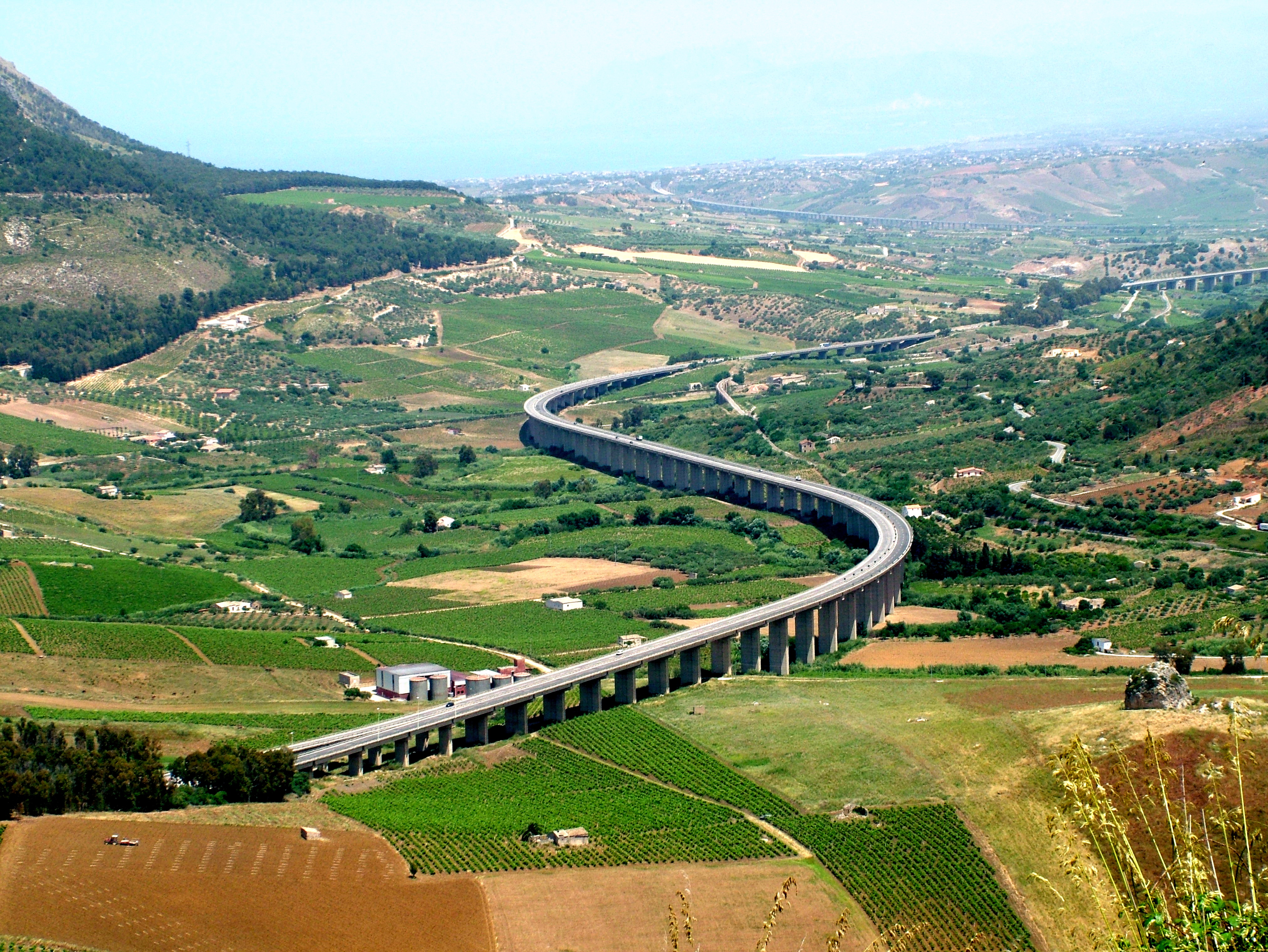 autofixed an overexposed photo from commons for an example